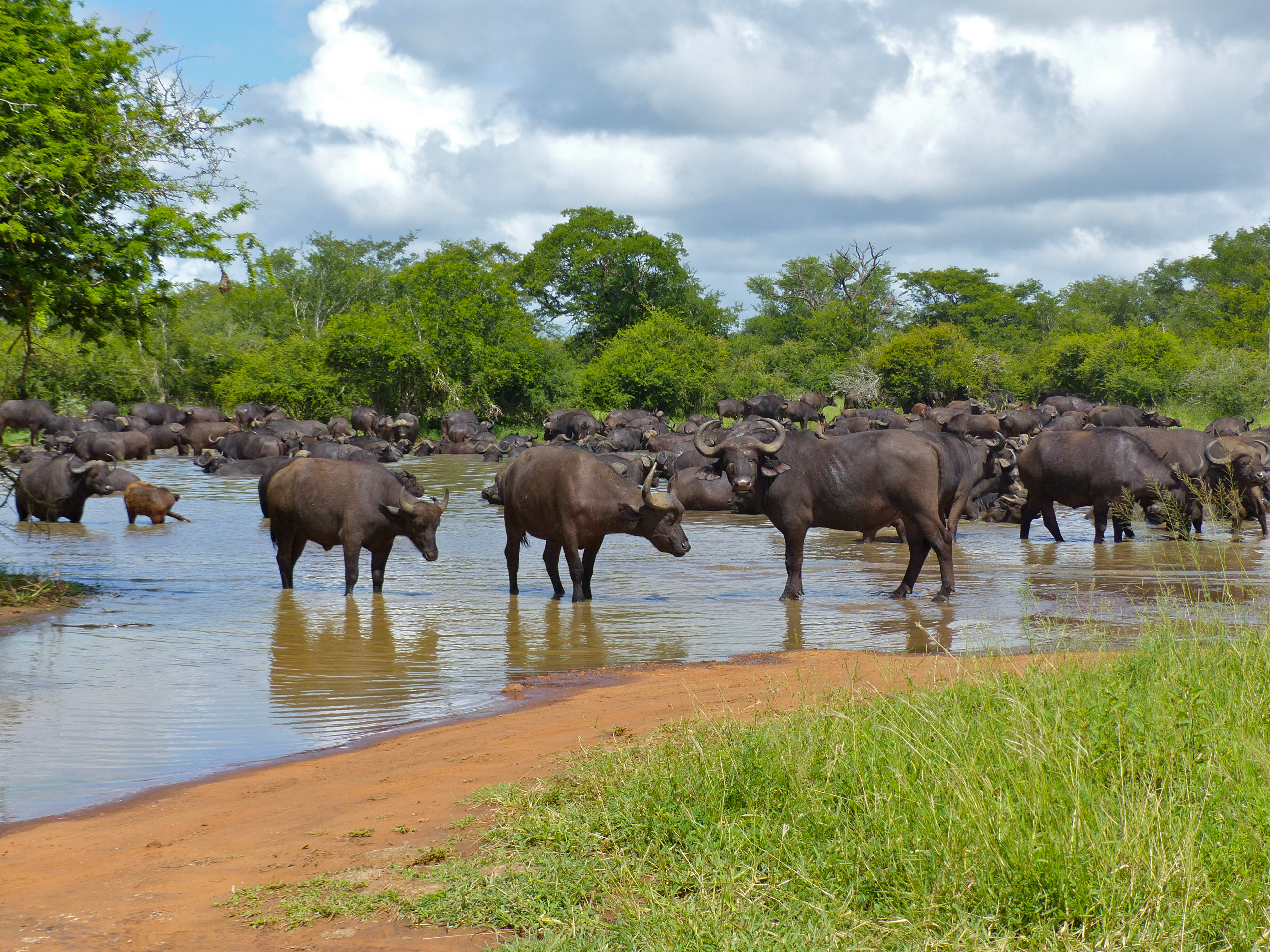 S130 Road South of Lower Sabie, Kruger NP, SOUTH AFRICA